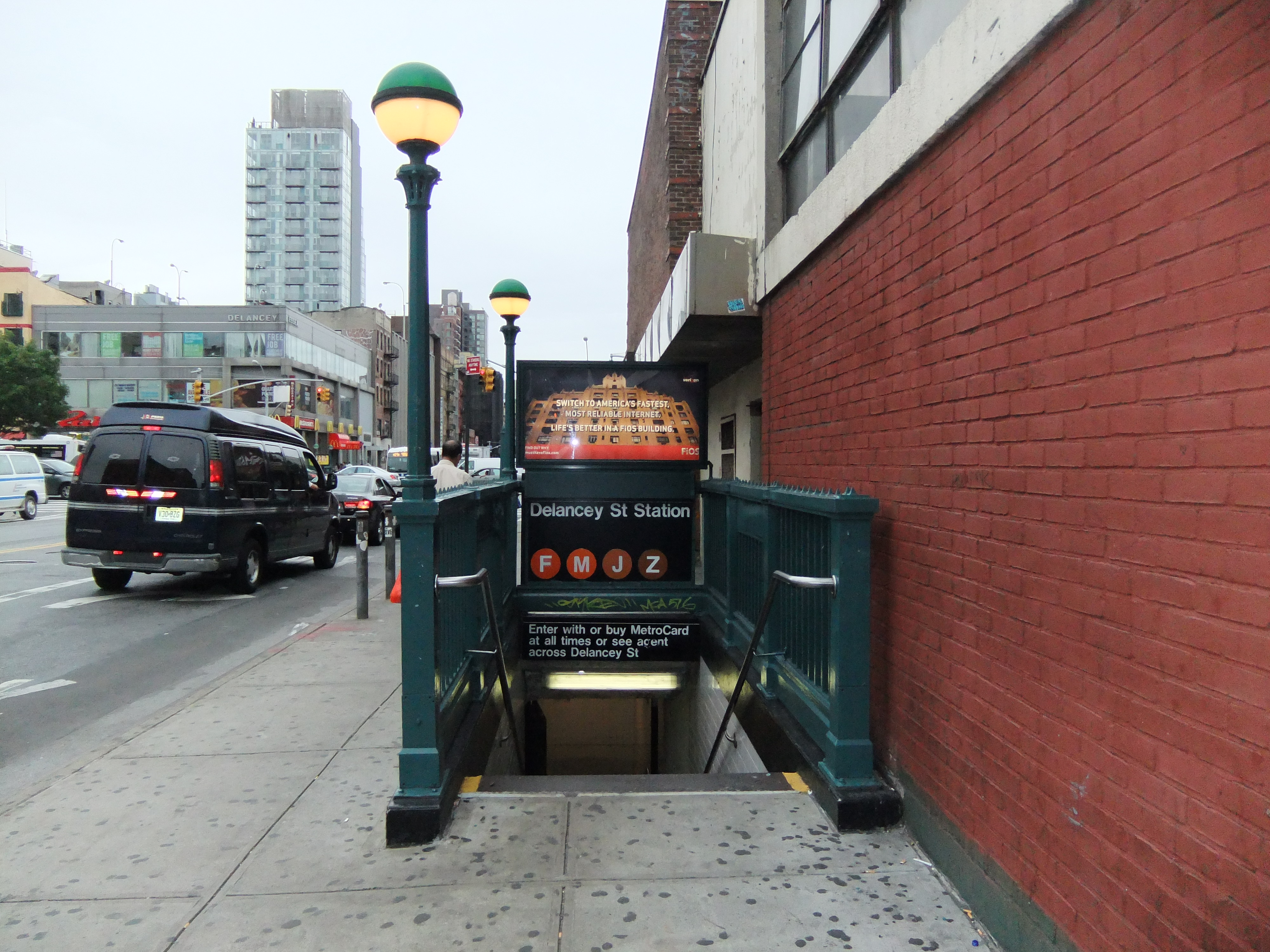 SE Stairs at Essex and Delancey Streets to the Delancey Street – Essex Street station